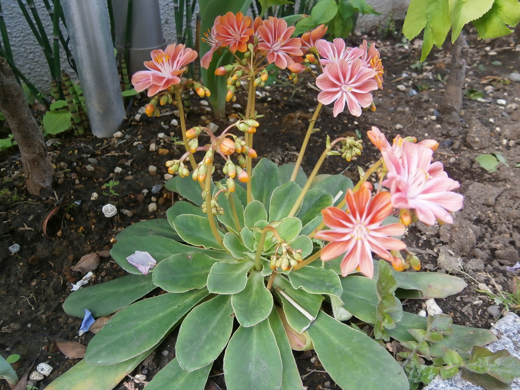 Lewicia cotyledon